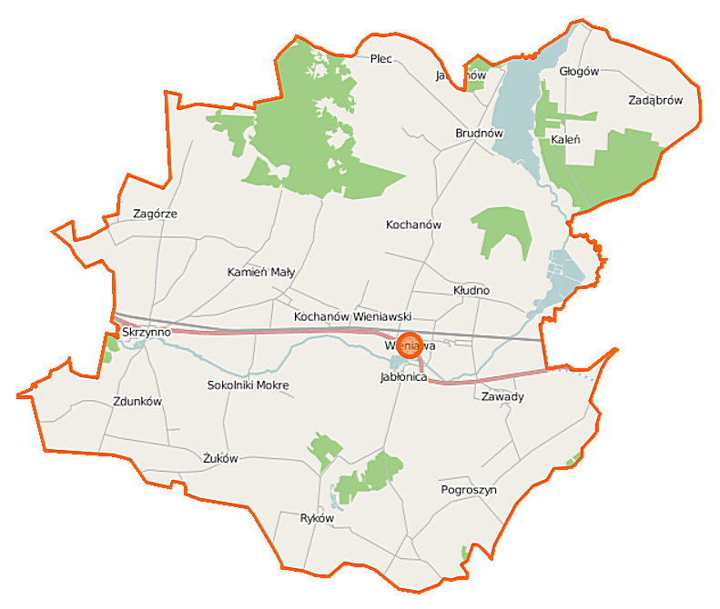 Map of Gmina Wieniawa, Poland This map of Wieniawa (gmina) was created from OpenStreetMap project data, collected by the community. This map may be incomplete, and may contain errors. Don't rely solely on it for navigation. Border coordinates51.425520.6752←↕→20.892251.3107